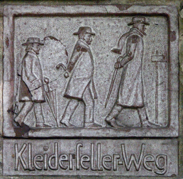 Braunschweig, Germany: “Kleidersellerweg“ sign in Riddagshausen.